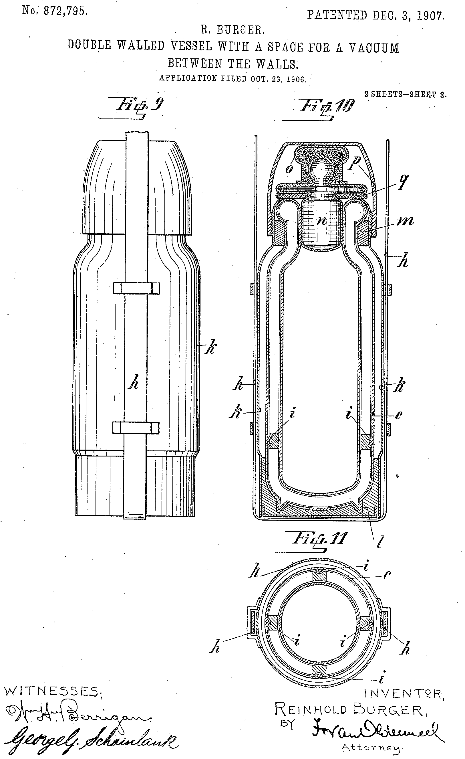 Page from a U.S. patent application. U.S. Patent number 872,795, issue date 1907-12-03. [1]